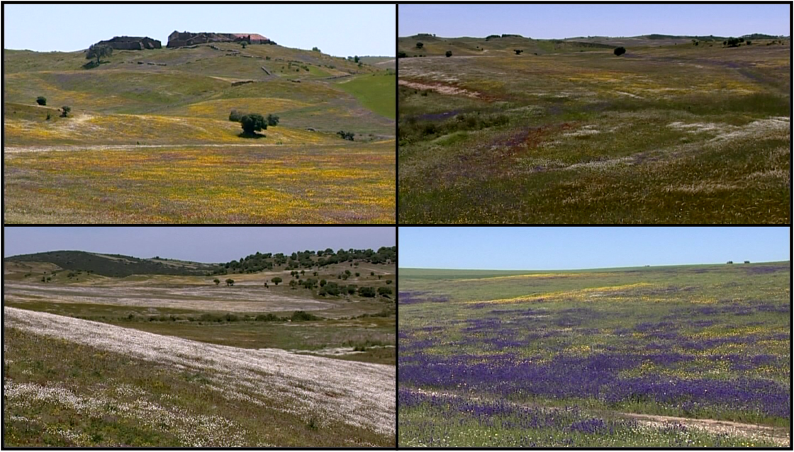 Pseudo-steppe landscape of Castro Verde